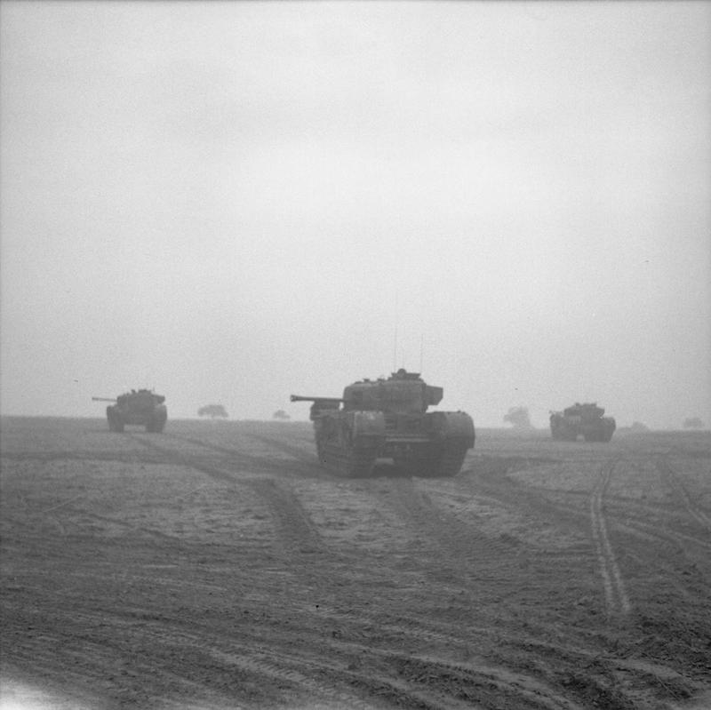 British Tanks in Nw Europe 1944-45 Churchill tanks of 7th Royal Tank Regiment (31st Tank Brigade), move forward during Operation Epsom, Normandy, 25/26 June 1944.